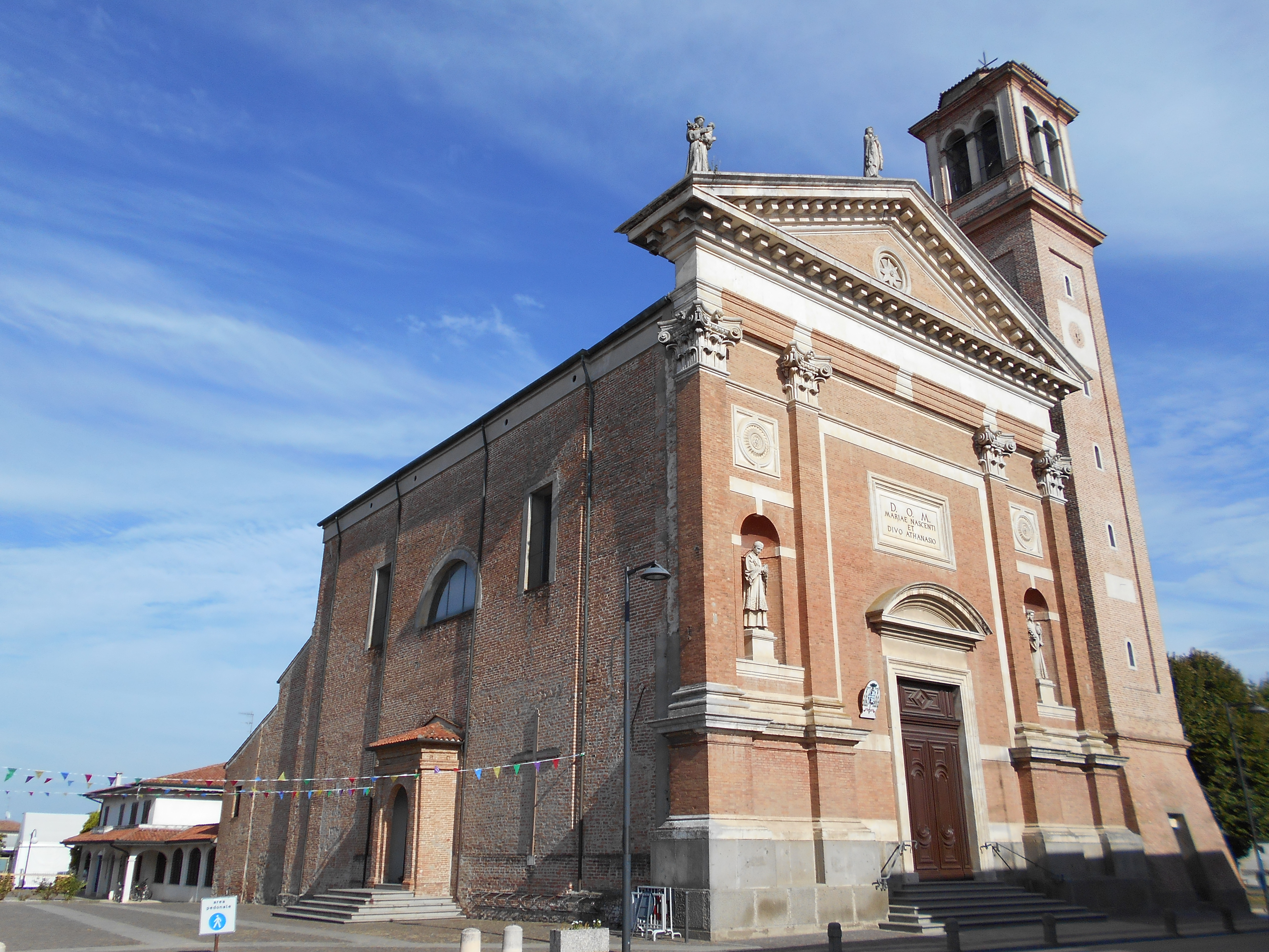 church, Pozzonovo